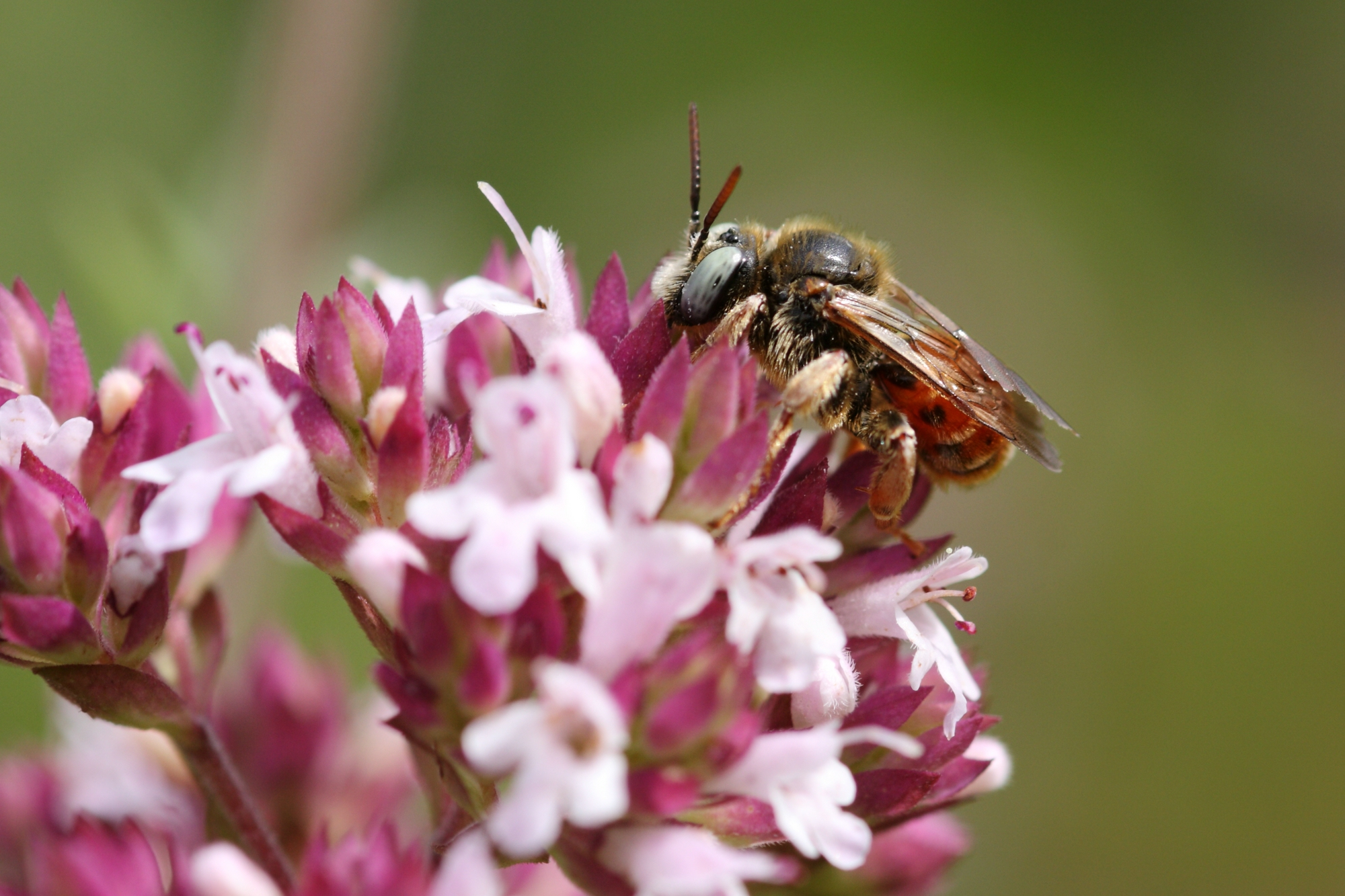 Epeoloides coecutiens, male